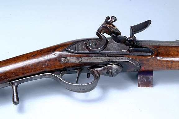 Ferguson Rifle 1776 English Major Patrick Ferguson patented this breech loading flintlock rifle in England, 1776. Only about 200 were made. The number '2' stamped on the trigger guard distinguishes this one from the others. Walnut, iron, brass. L 124.5 cm, L (barrel) 86.4 cm Morristown National Historical Park, MORR 2375